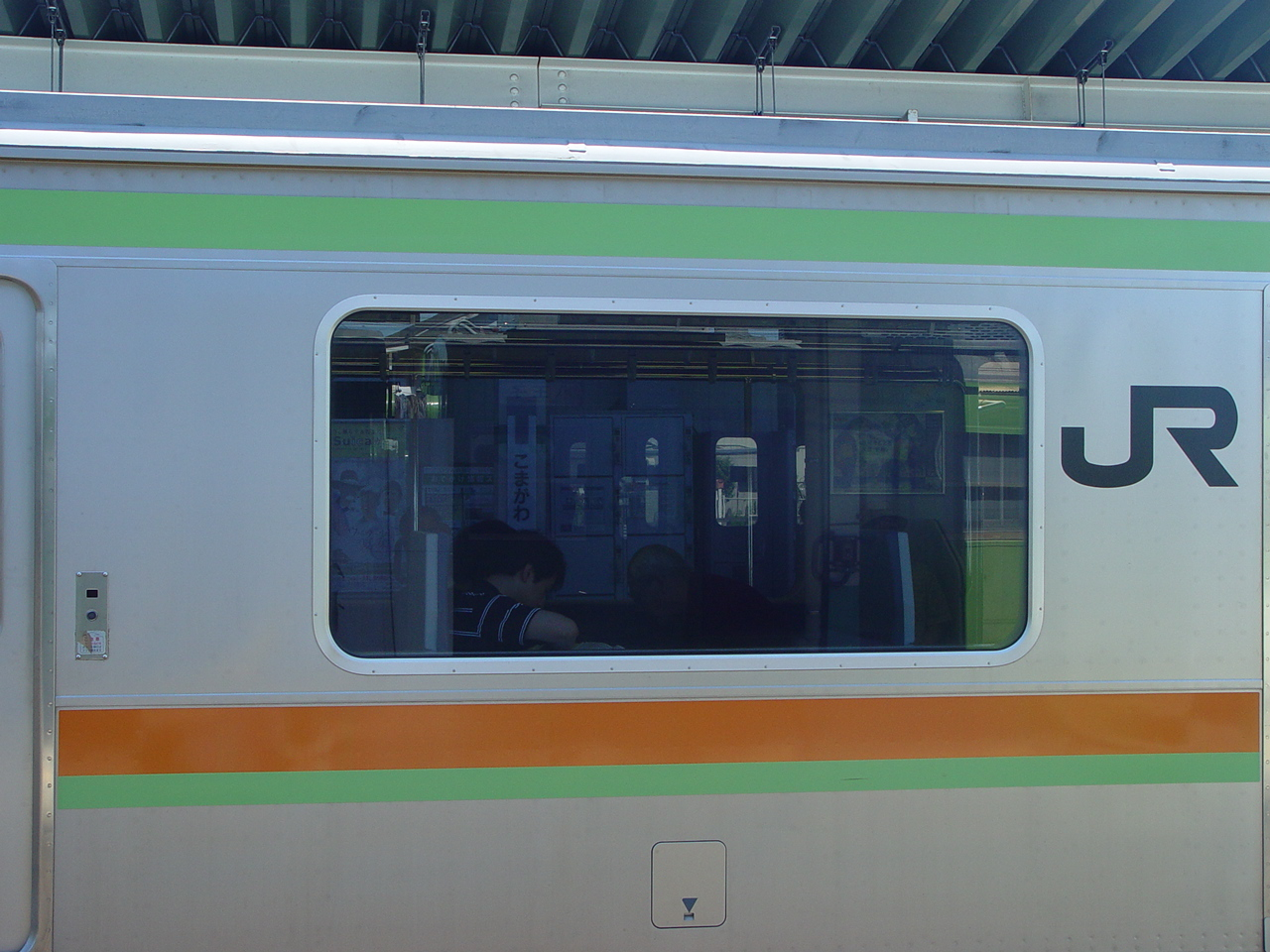 KuHa 209-3003 of Hachiko Line 209-3000 series set 63 at Komagawa Station, showing the transverse seating bay added experimentally for a short period during 2004